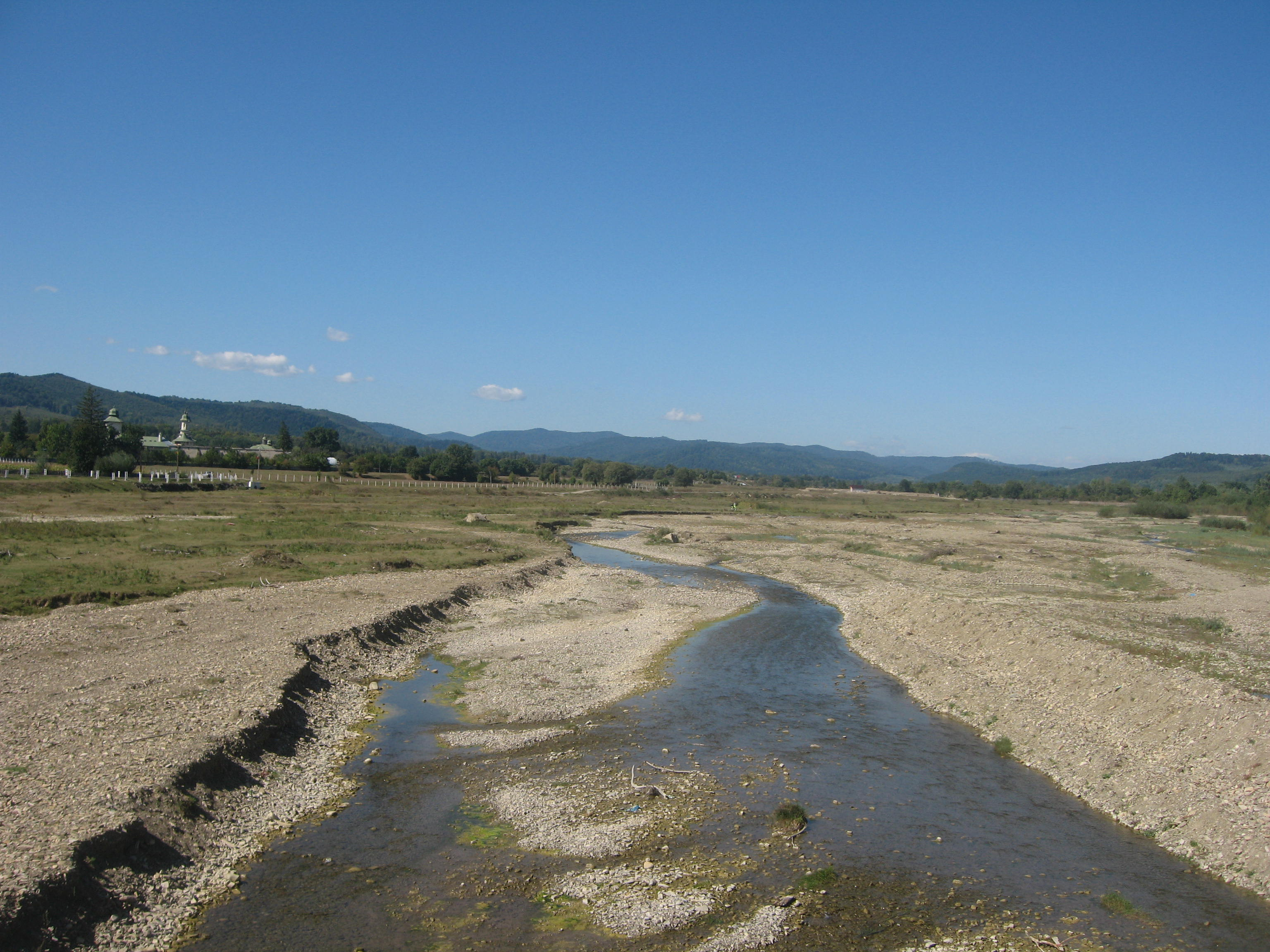 Râşca River